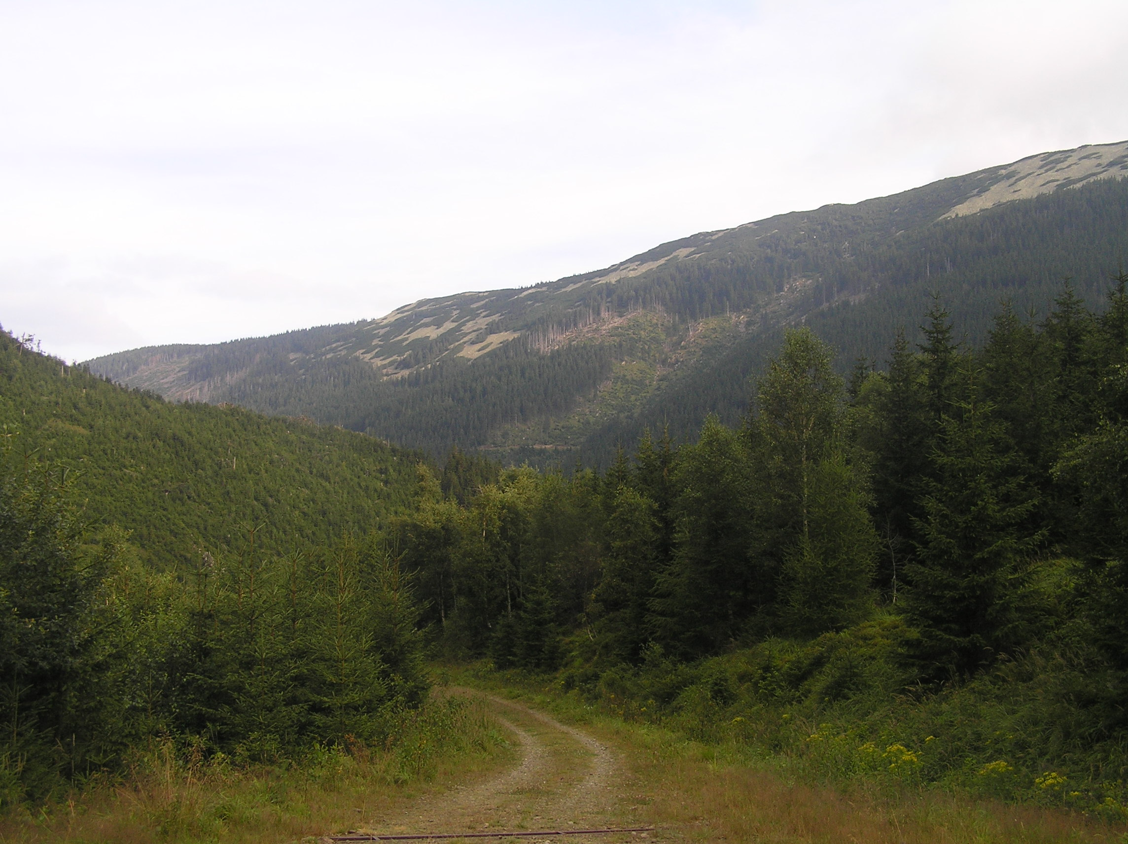 Dlouhý důl, Kronoše, Czech Republic